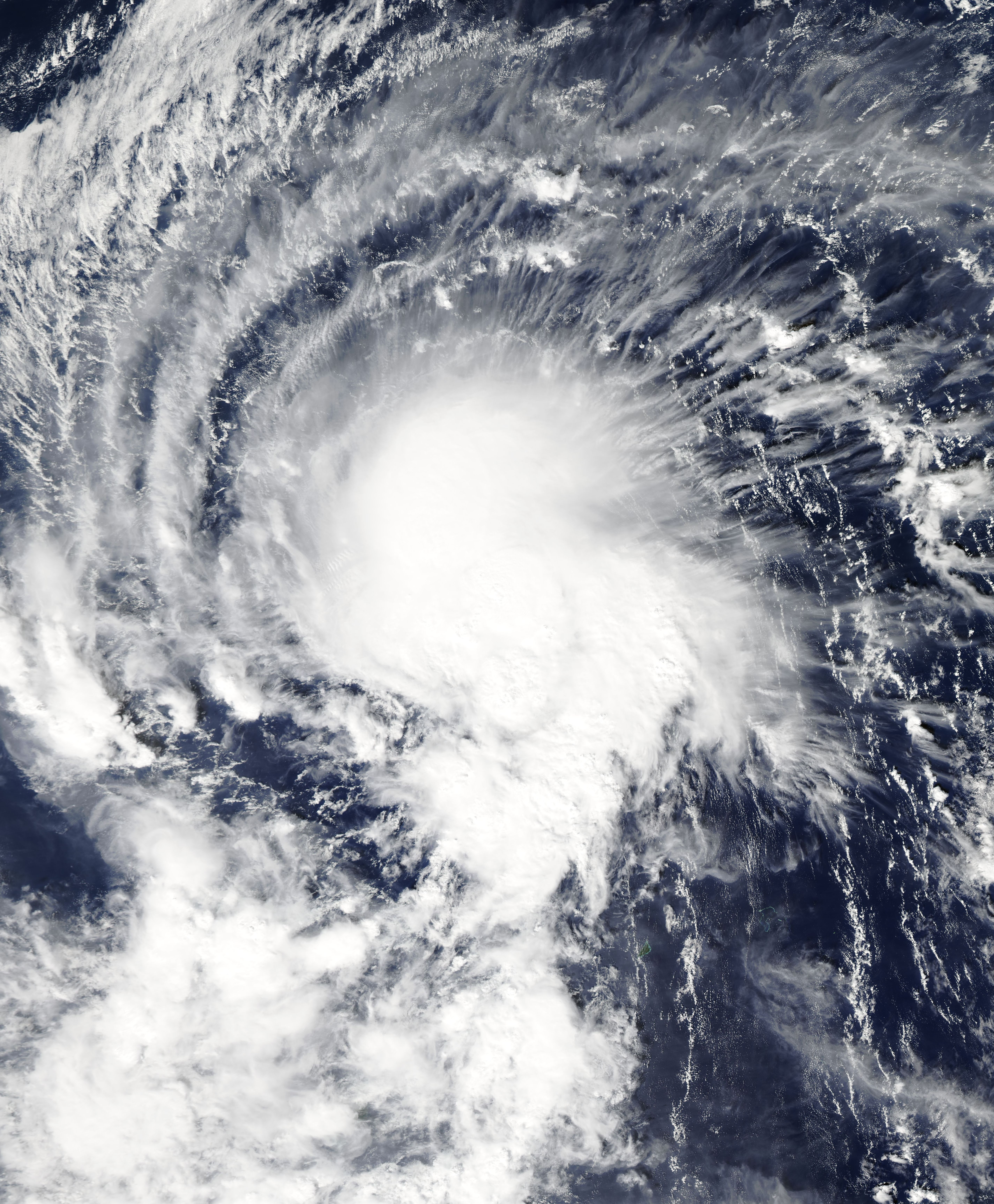 Tropical Storm Dolphin in December 13 2008.